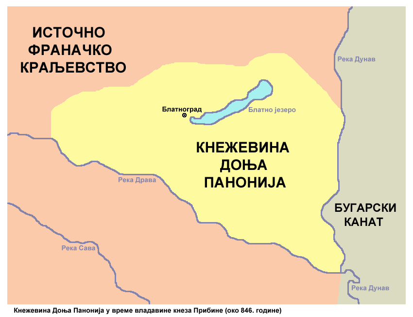 Principality of Lower Pannonia, one of the earliest Slavic states, during Prince Pribina's reign (around 846 AD).